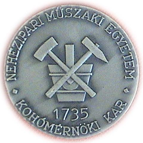 Silver study medallion, University of Miskolc, Faculty of Materials Science and Engineering